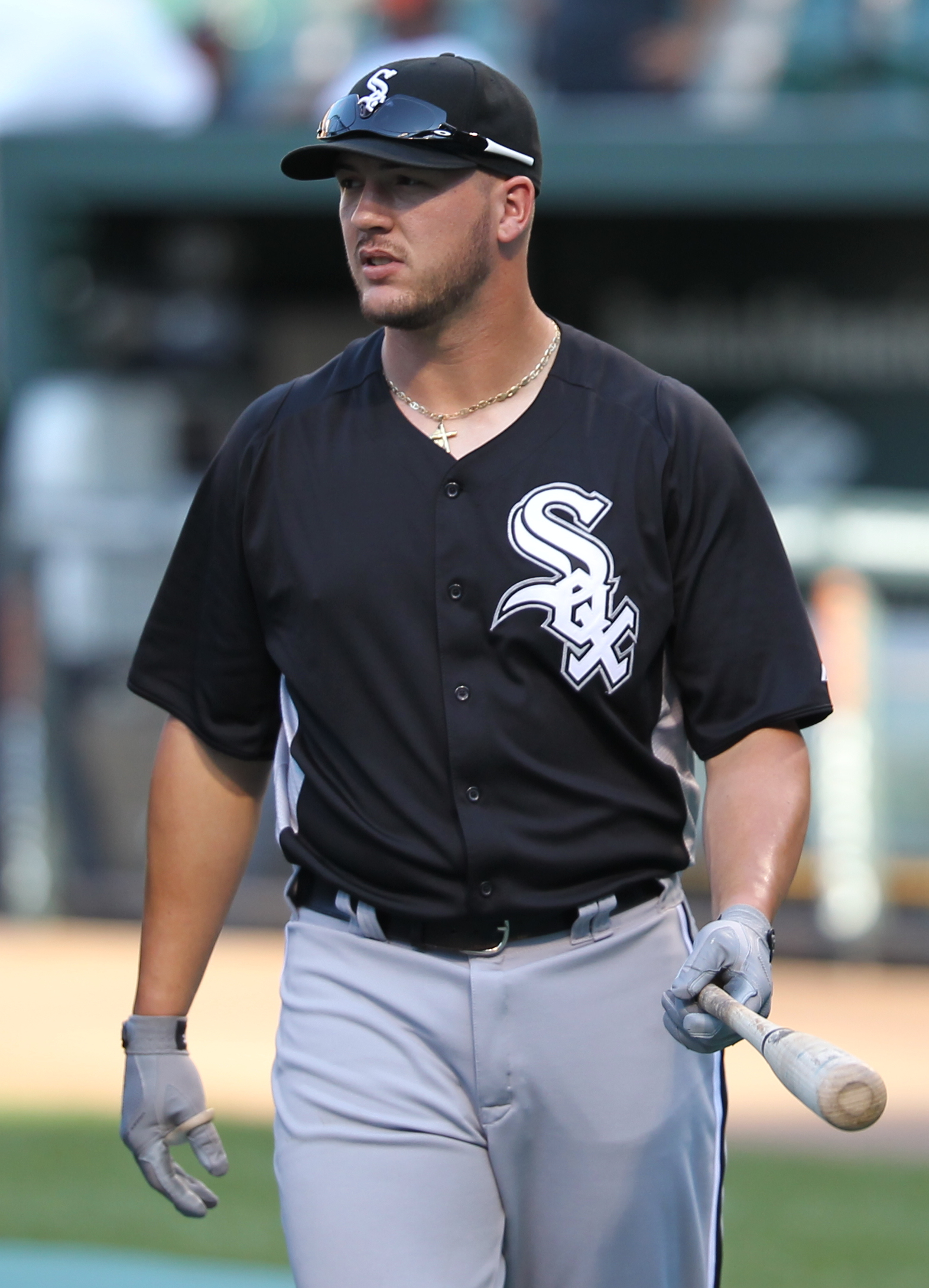 Chicago White Sox catcher Tyler Flowers in 2011.